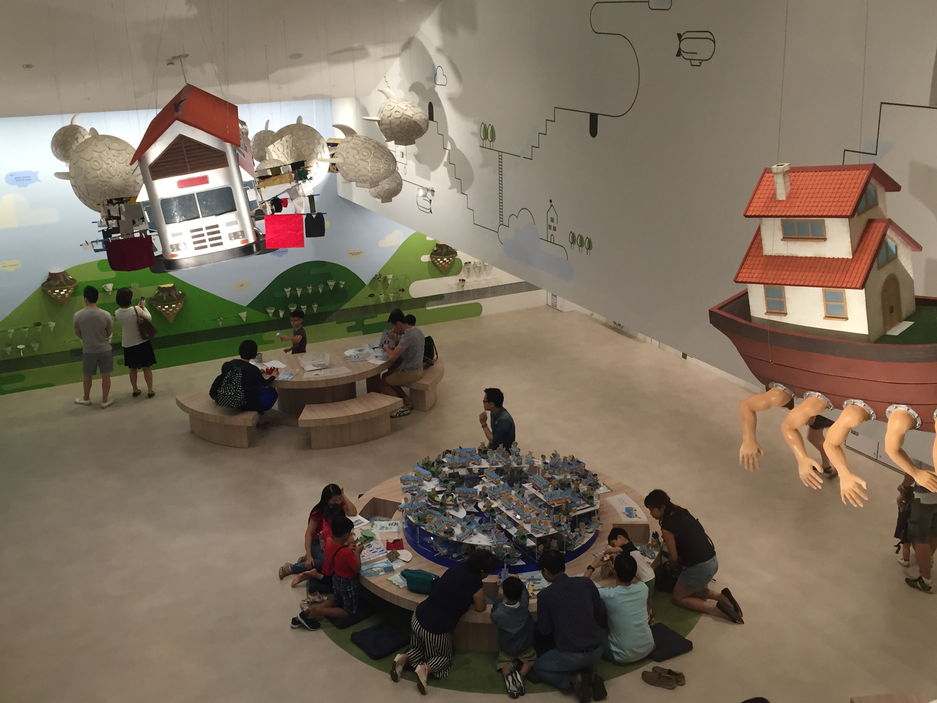 The Project Gallery of the Keppel Centre for Art Education in the National Gallery Singapore.